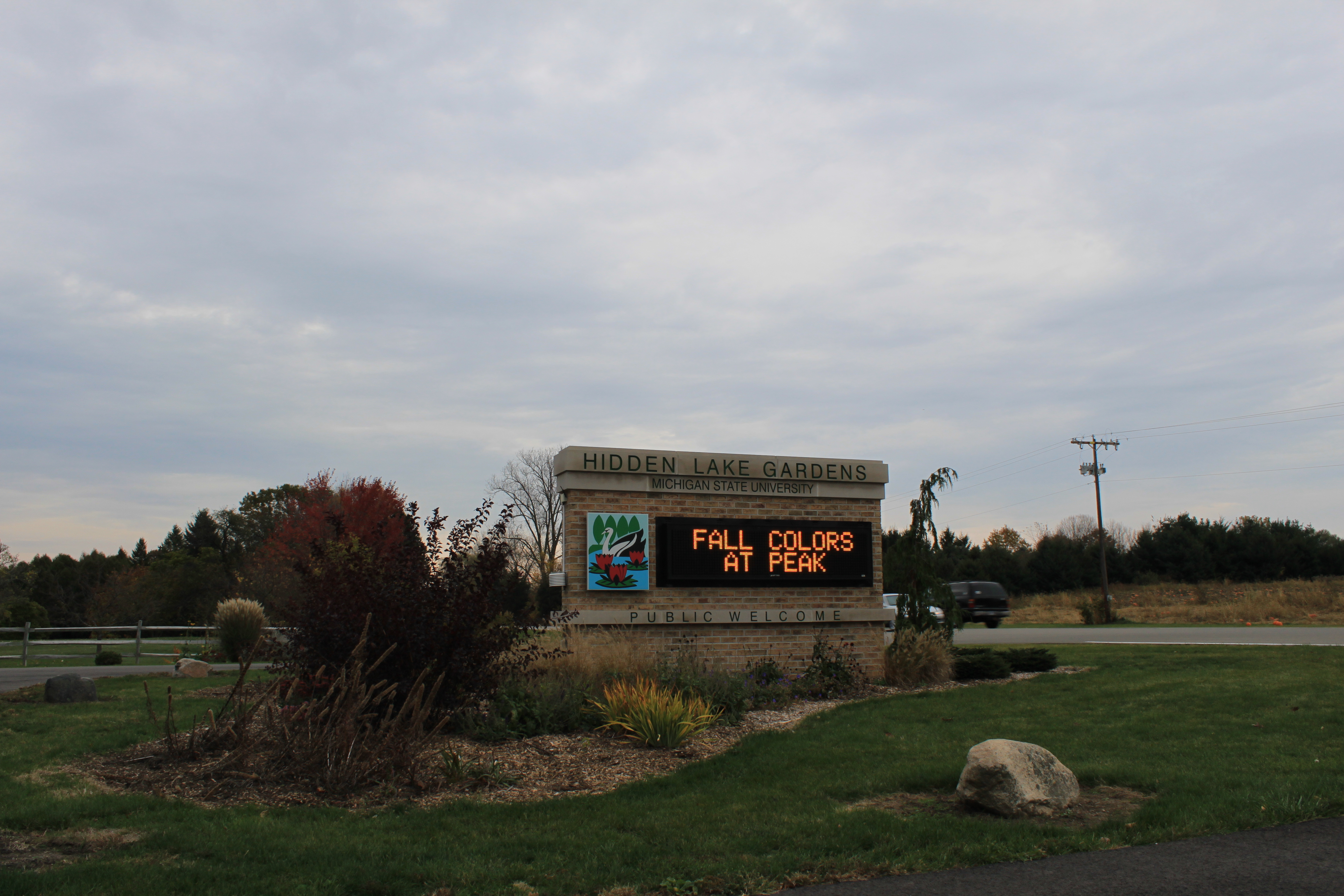 Hidden Lake Gardens entrance, Tipton Michigan